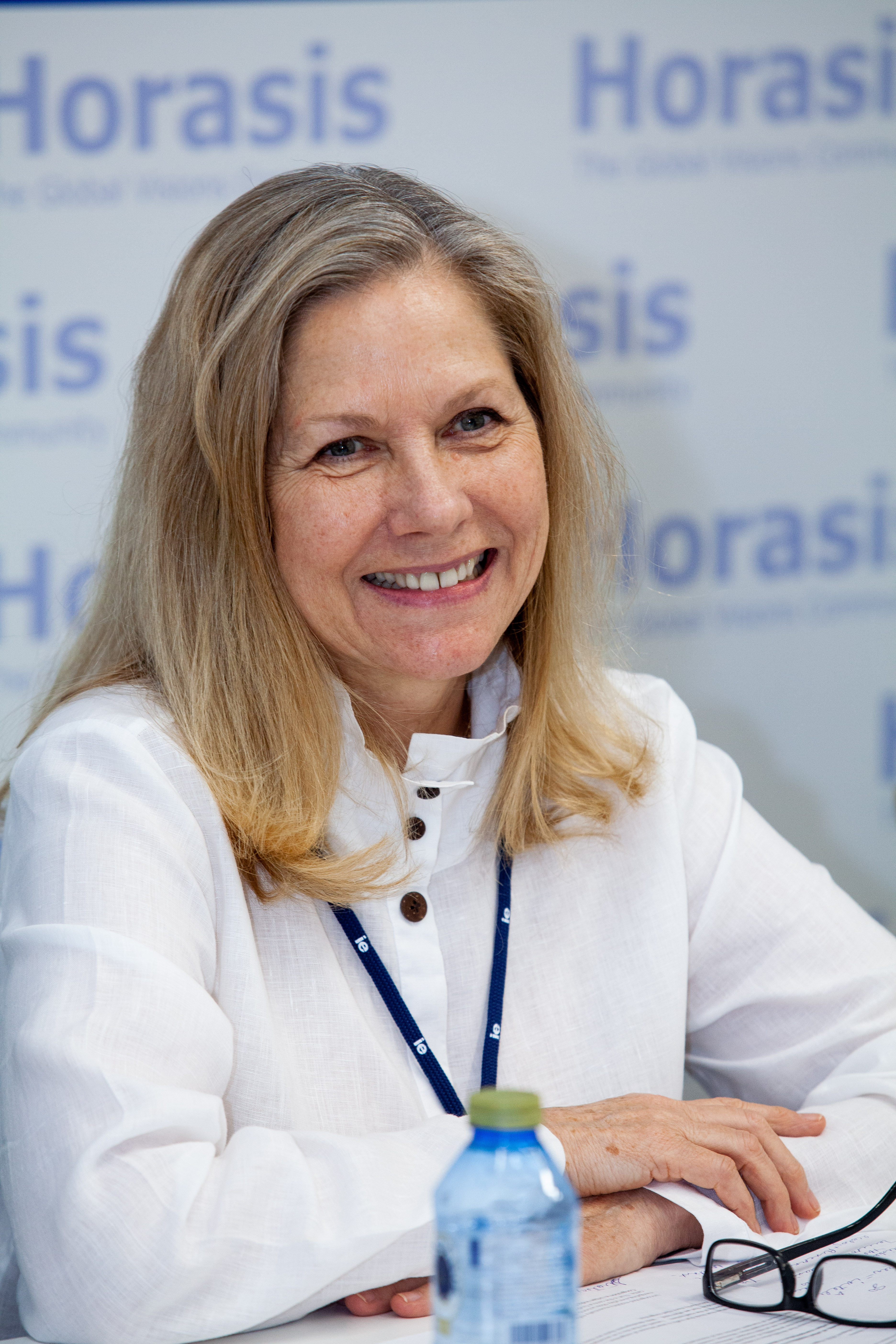 Martha Thorne, Dean, School of Architecture and Design, IE University